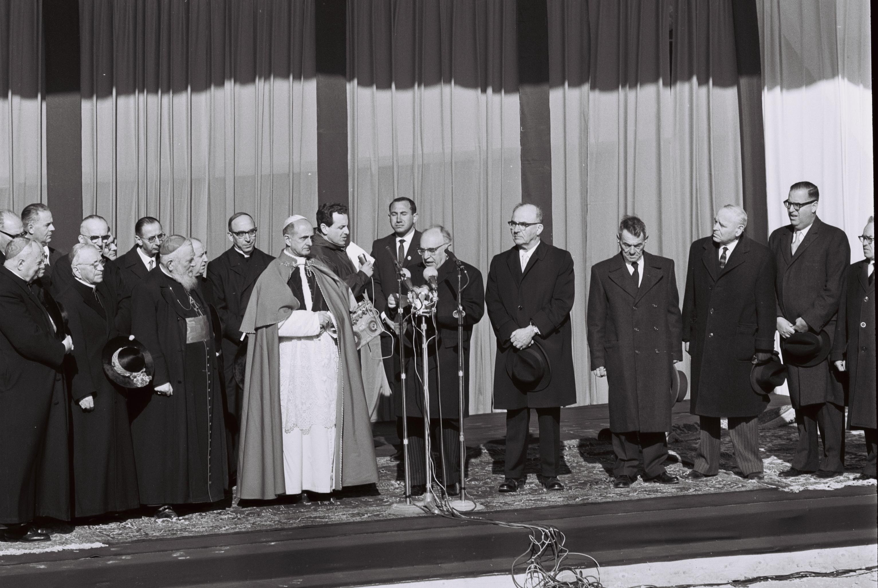 PRES. SHAZAR DELIVERING HIS WELCOMING SPEECH TO POPE PAULUS VI AT MEGIDDO IN PRESENCE P.M. ESHKOL, KNESSET SPEAKER LUZ, SUPREME COURT PRES. OLSHAN, DEP.P.M. ABBA EBAN. áé÷åø äëñ ä÷ãåù äàôéôéåø ôàåìåñ äùéùé áéùøàì. áöéìåí, ðùéà äîãéðä æìîï ùæø îáøê àú äàôéôéåø áäâéòå ìáé÷åø îîìëúé áéùøàì, áè÷ñ ùðòøê áîâéãå. îéîéï ìùîàì- ùø äçåõ àáà àáï, ðùéà áéú äîùôè éöç÷ àåìùï, éå"ø äëðñú ÷ãéù ìåæ åøàù äîîùìä ìåé àùëåì.